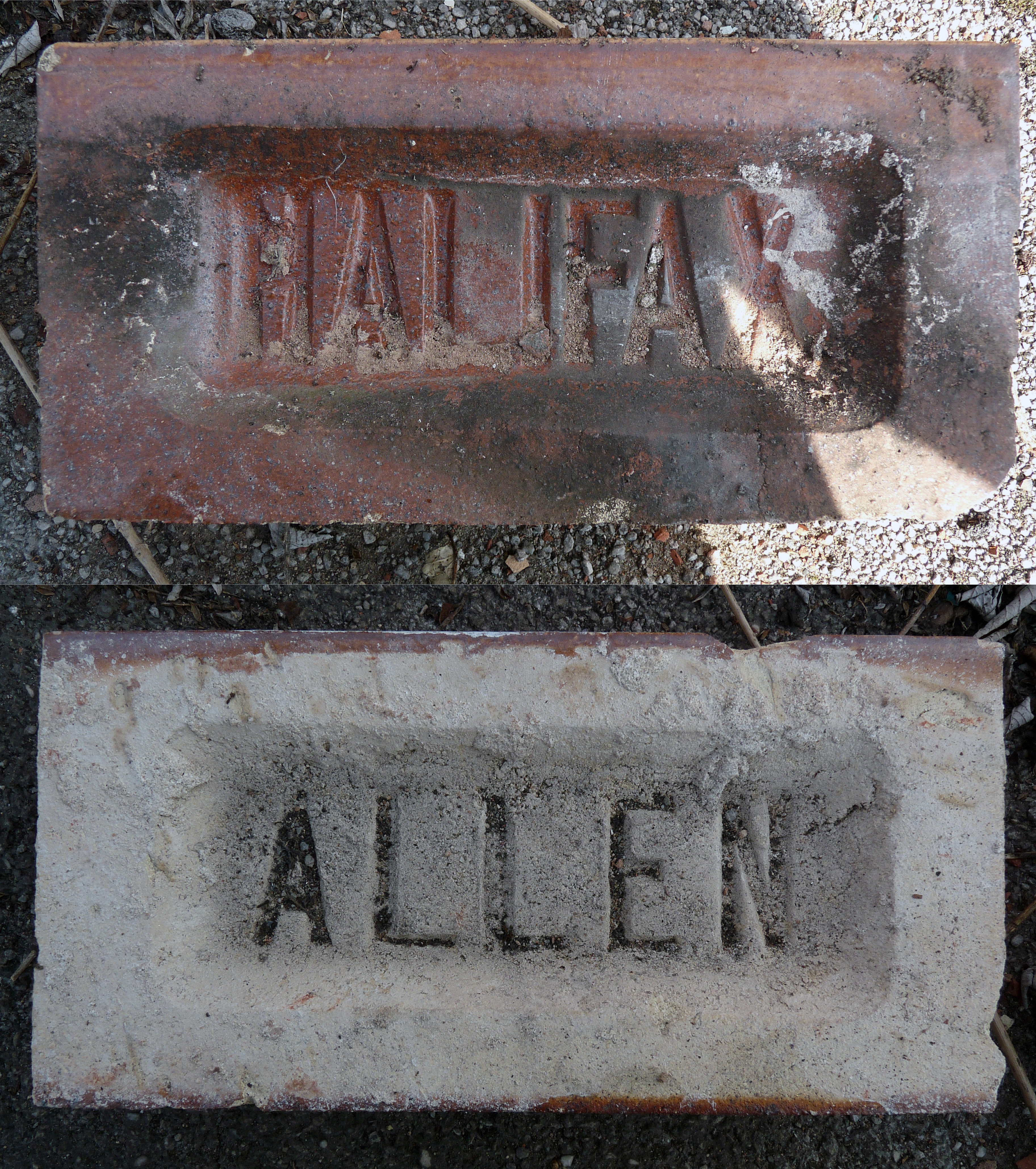 Glazed brick manufacturers established by Henry Victor Allen when he took over the Halifax Glazed Brickworks in the Walterclough Valley. He converted the works to manufacture refractory bricks. Their Sefrac refractory bricks were world famous.